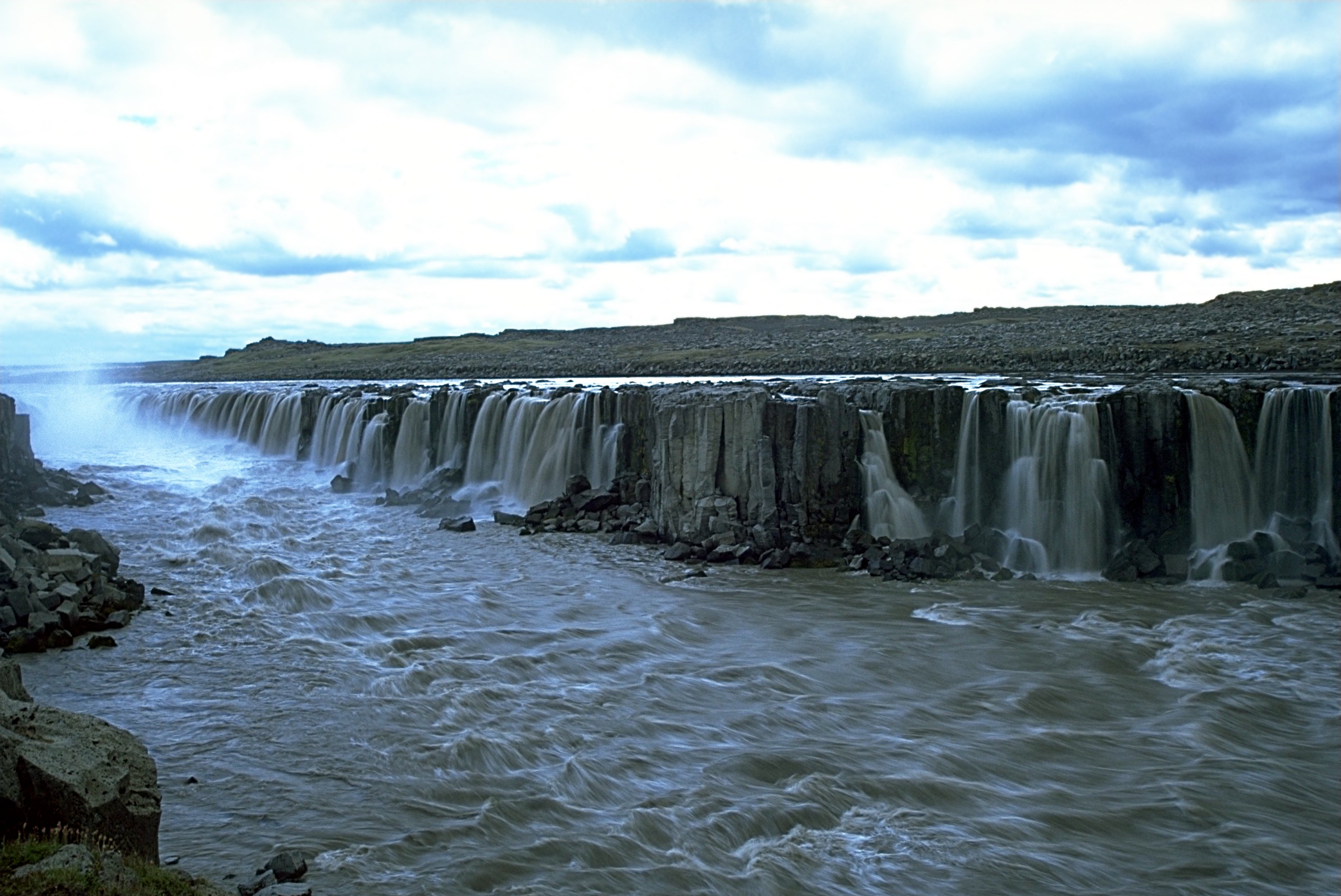 Selfoss, Jökulsárgljúfur national park, Iceland Photo was taken using the following technique: Film: Fuji Velvia Lens: 2.8/28 Filter: Polarisation Body: Minolta Dynax 7 Support: Manfrotto 190B Image with Information in English Bild mit Informationen auf Deutsch